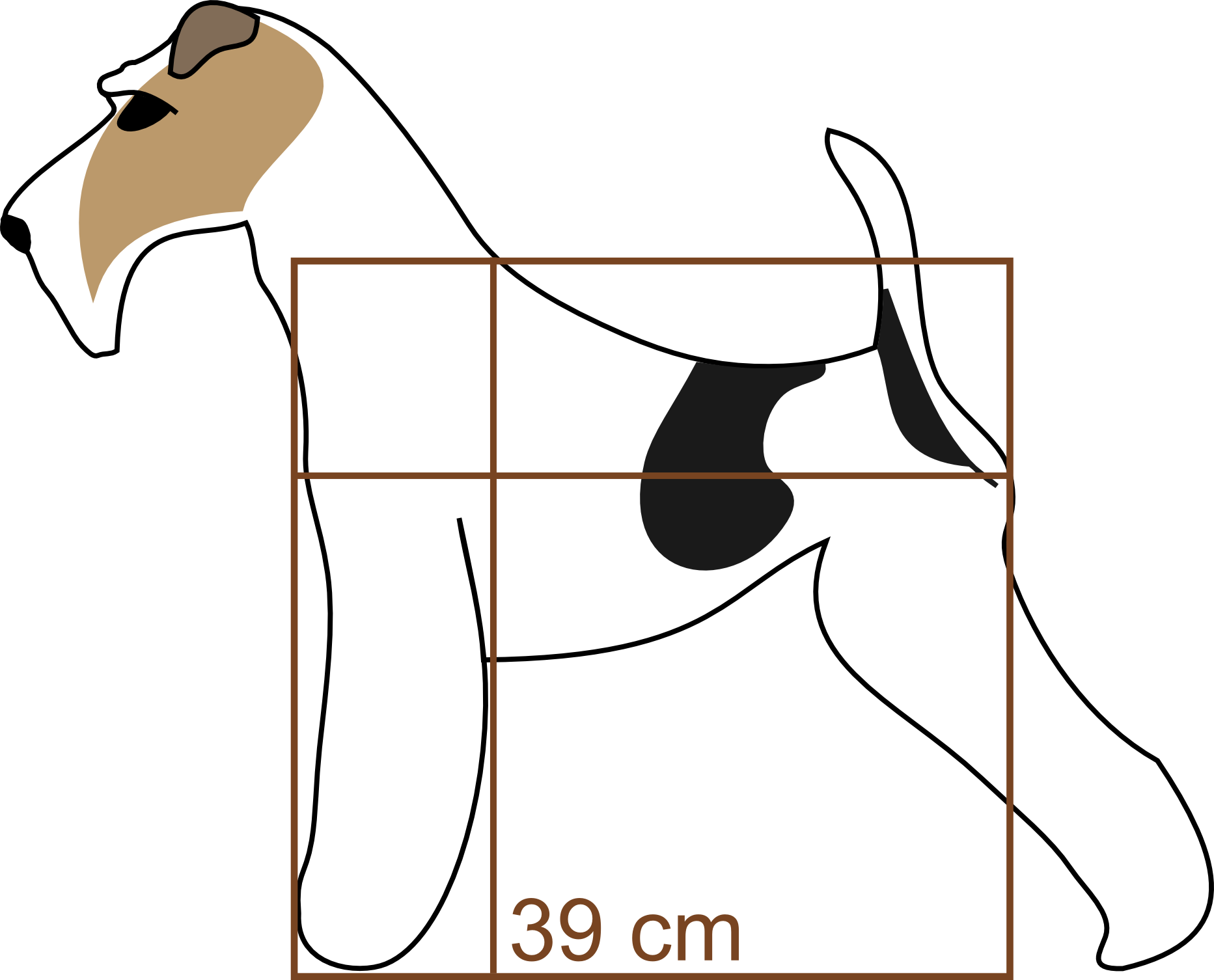 Proportions of Wire Fox Terrier